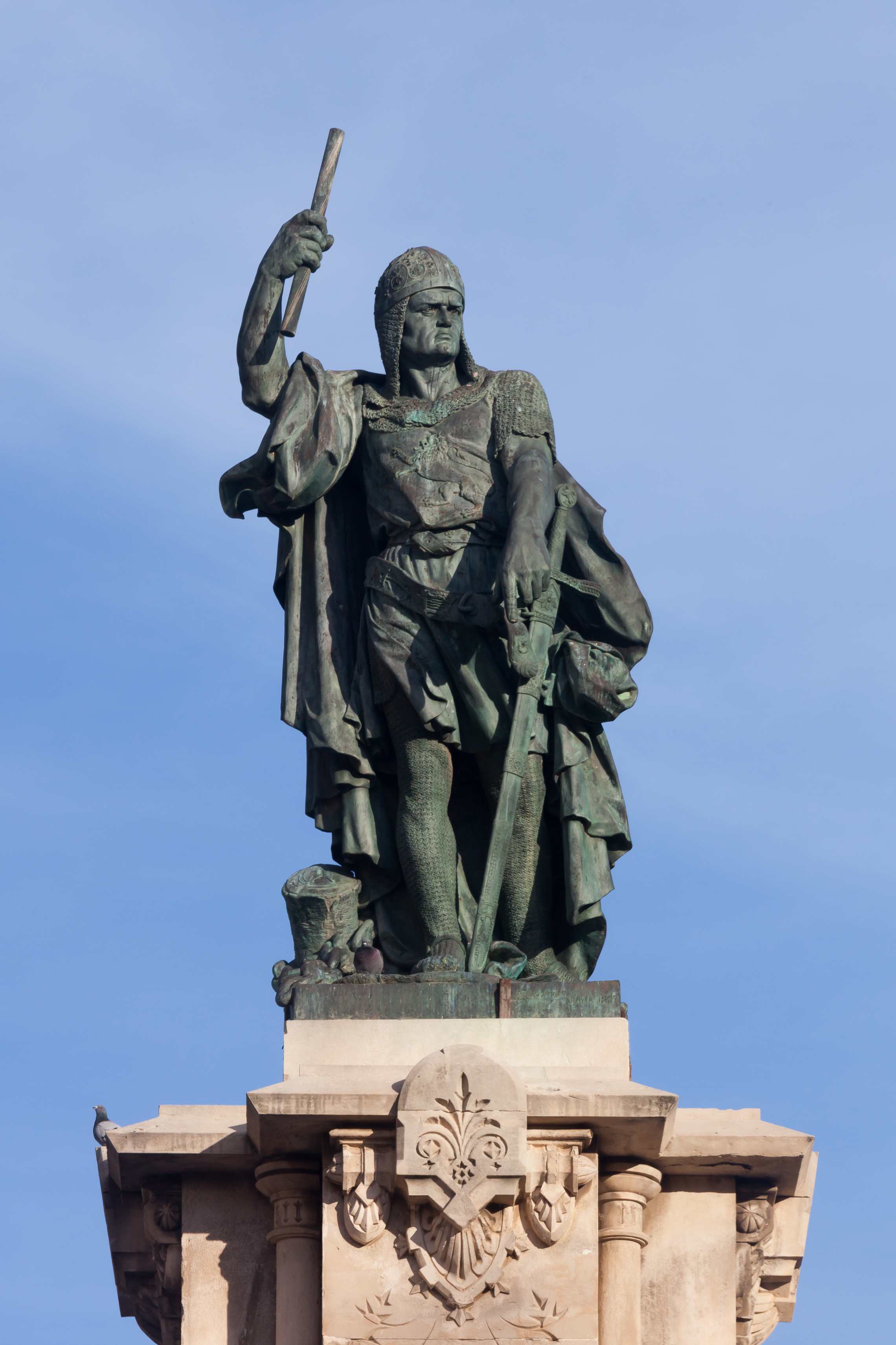 Roger de Lauria. Rambla Nova de Tarragona. Catalonia